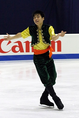 Hiroaki SATO JPN – 15th Place